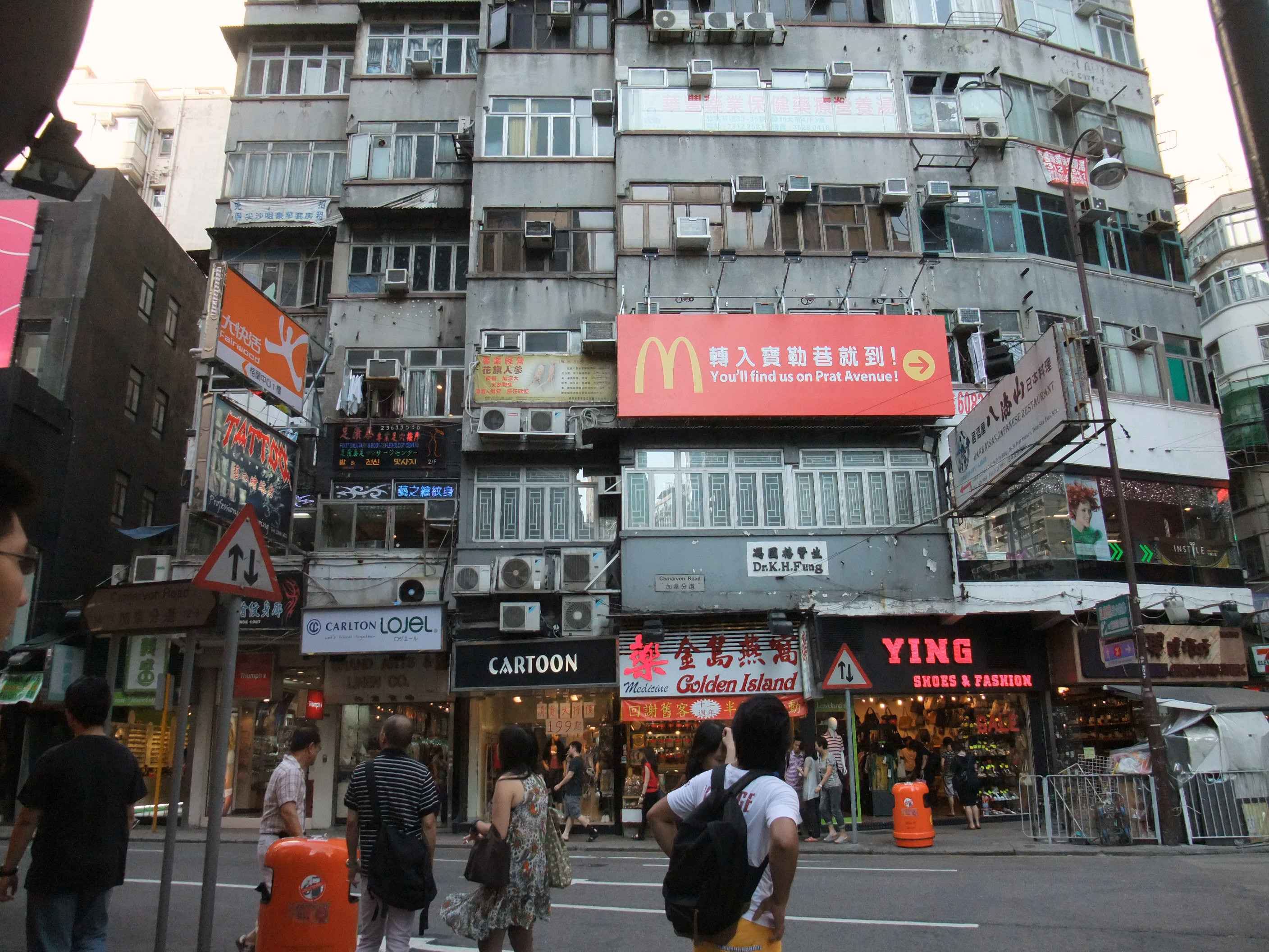 Kowloon, Carnarvon Road, corner Prat Avenue, James S.Lee Manson